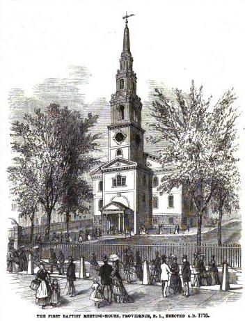 Caption: The First Baptist Meeting-house, Providence, R. I., erected A. D. 1775.